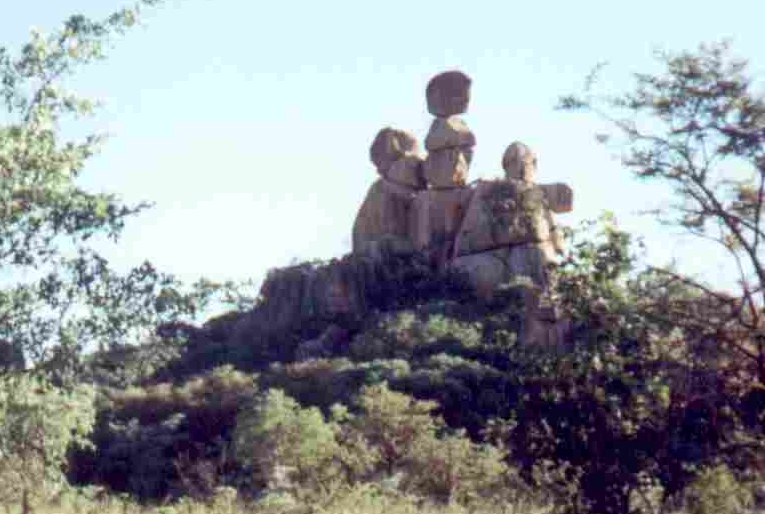 Mother and Child Kopjie, Matobo National Park, Zimbabwe